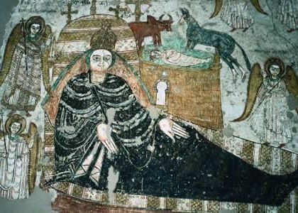 fresco in the cathedral in Faras, Sudan, showing the birth of Jesus - NB, image is reversed from the original